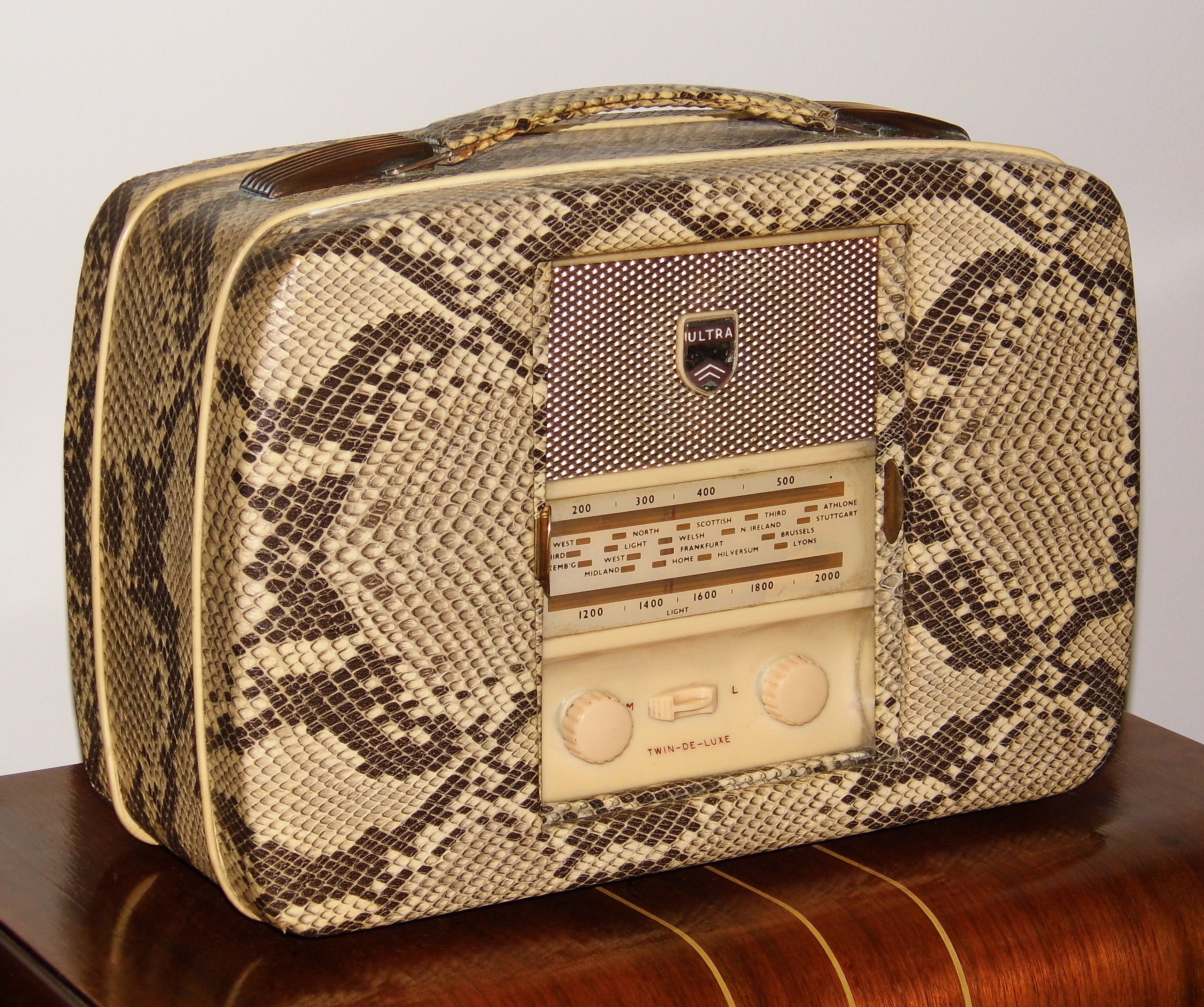 Auction Item 165